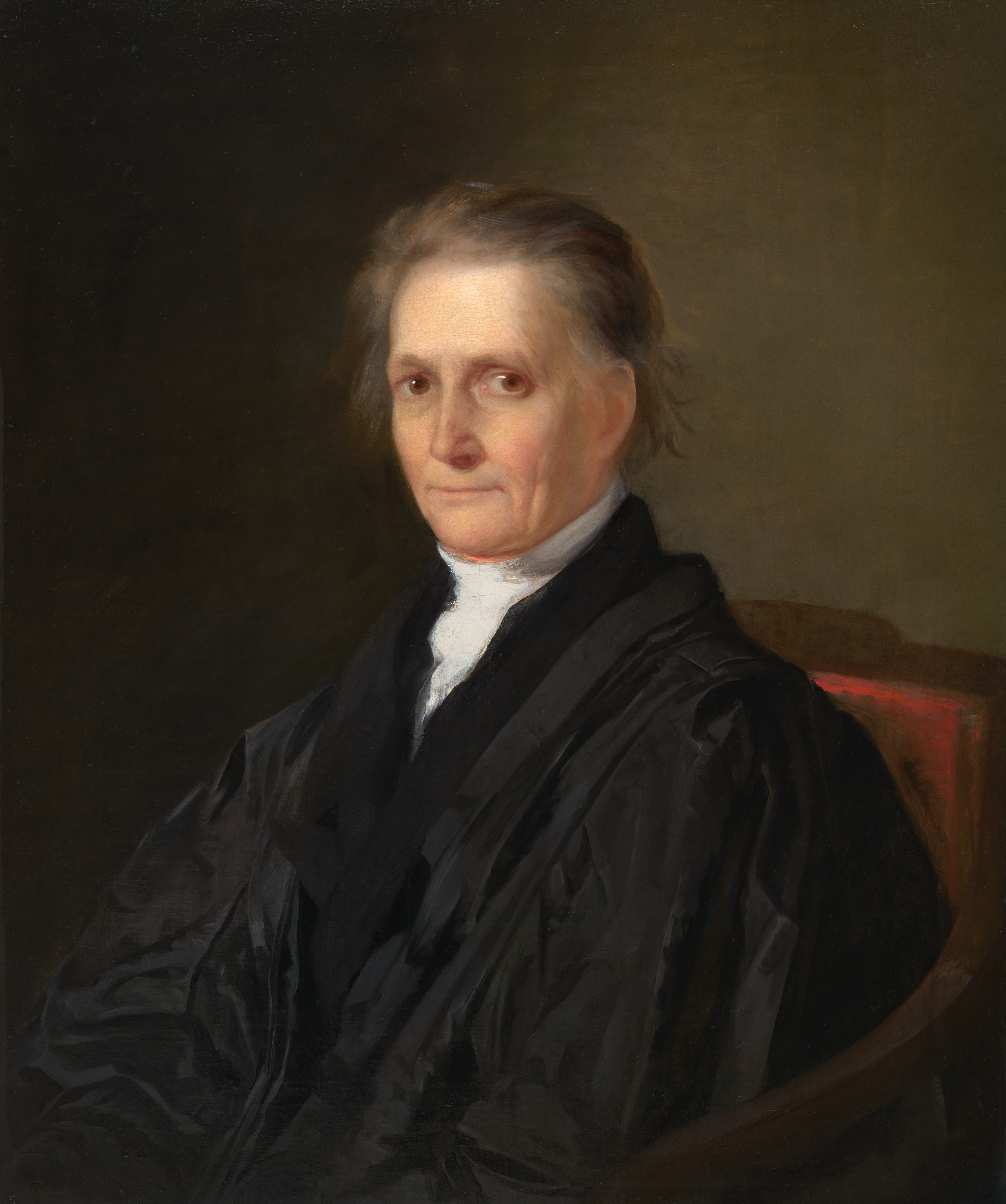 Reversed image of painting of Supreme Court Justice Bushrod Washington (1762–1829) in the National Portrait Gallery, Washington, D.C.